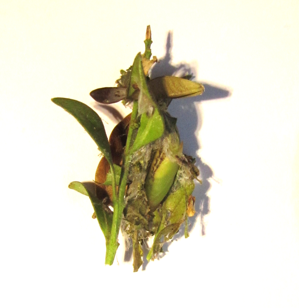 Pupa of Cydalima perspectalis in the opened cocoon.